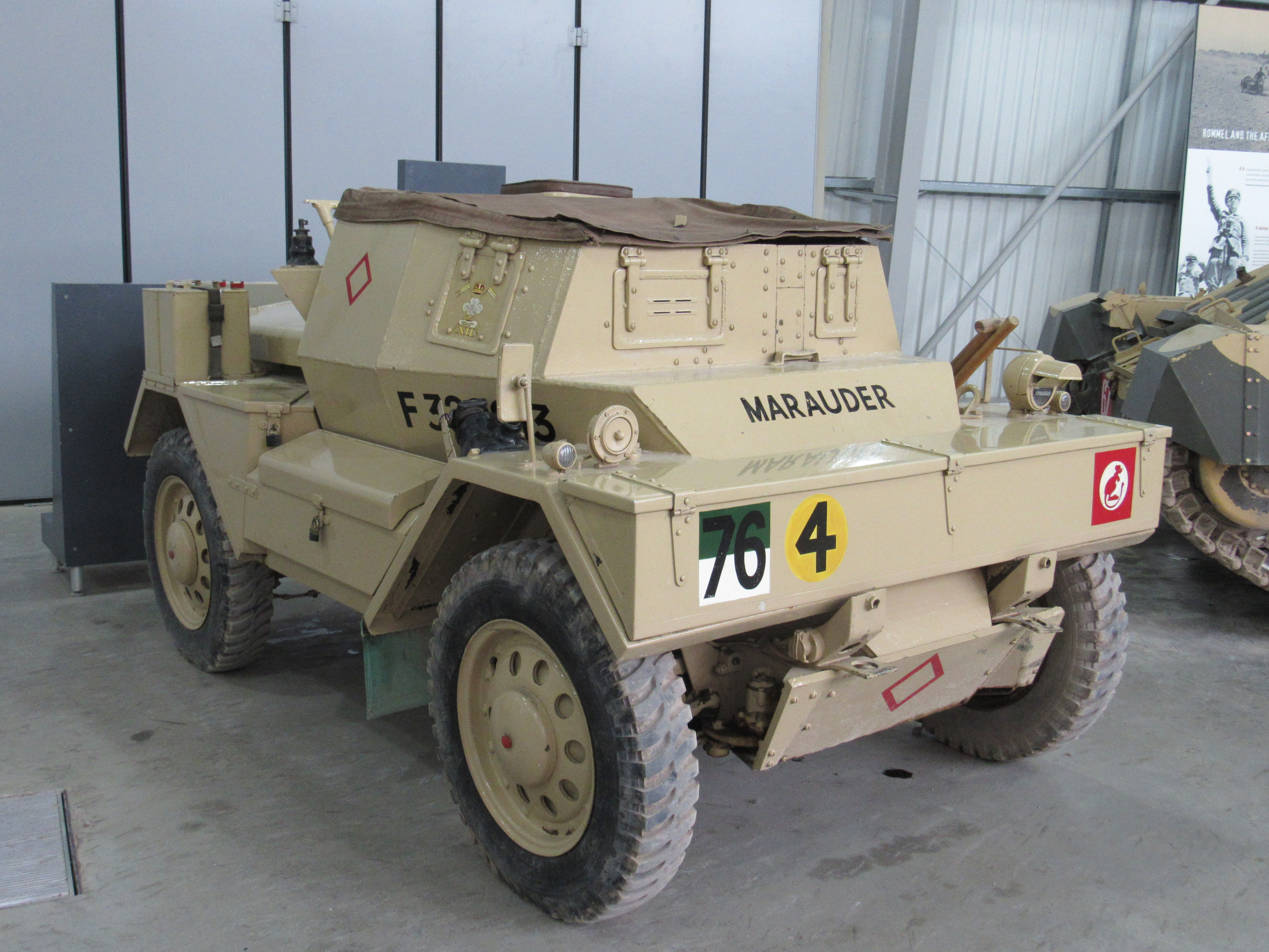 Taken in Bovington Tank Museum